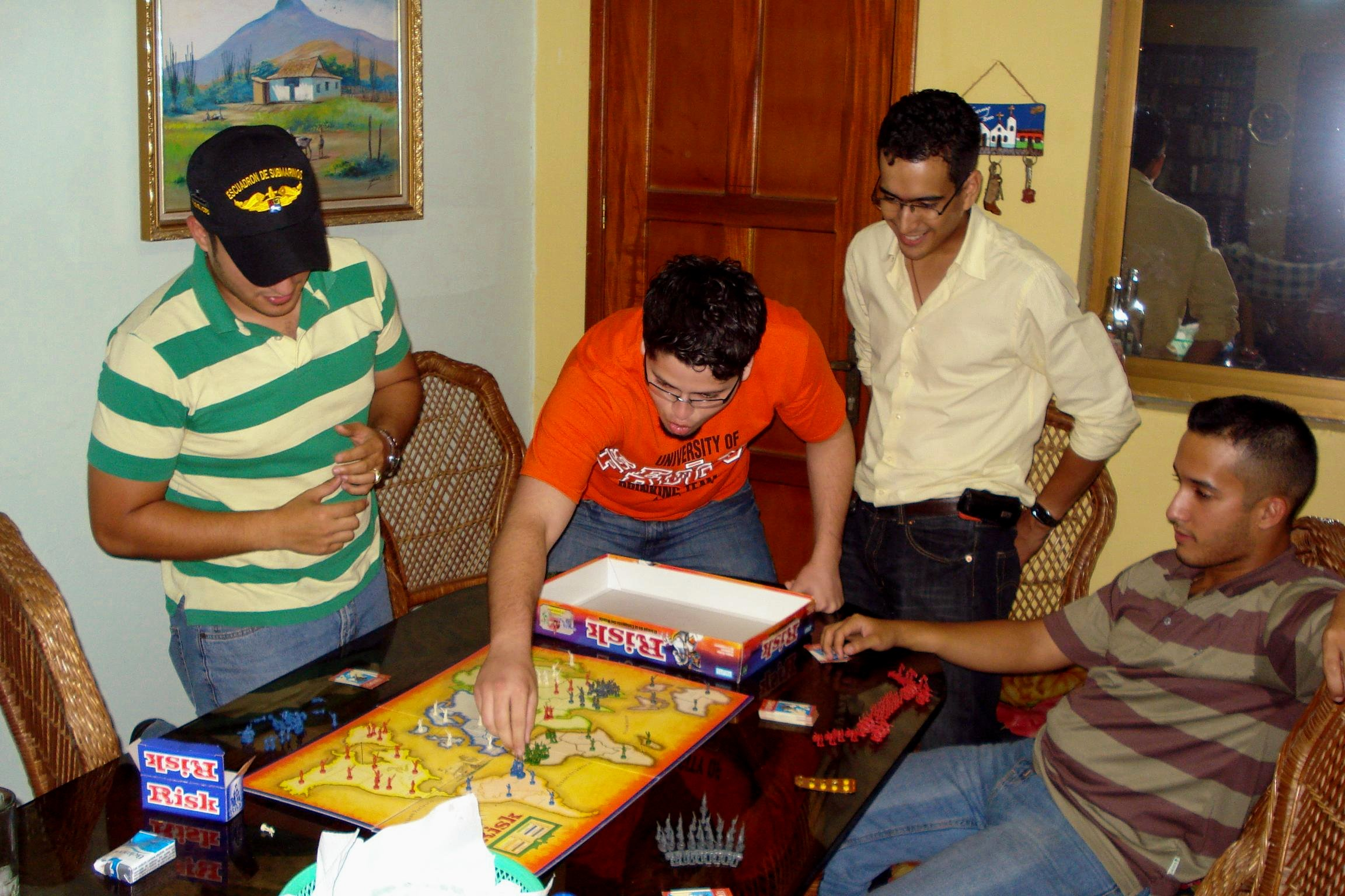 Playing the game RISK